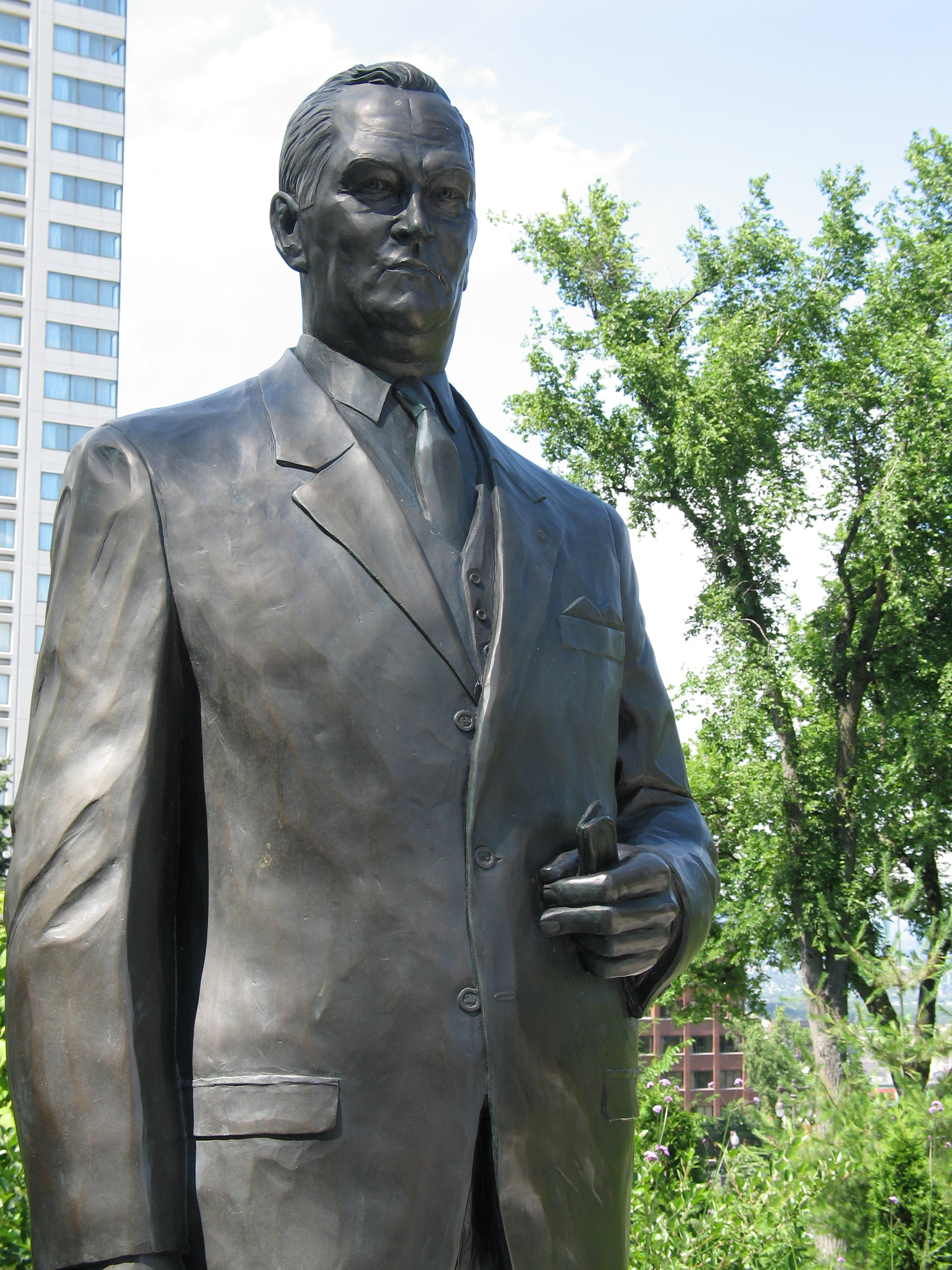 Statue of Jean Lesage (1912-1980) in front of the National Assembly in Quebec City.